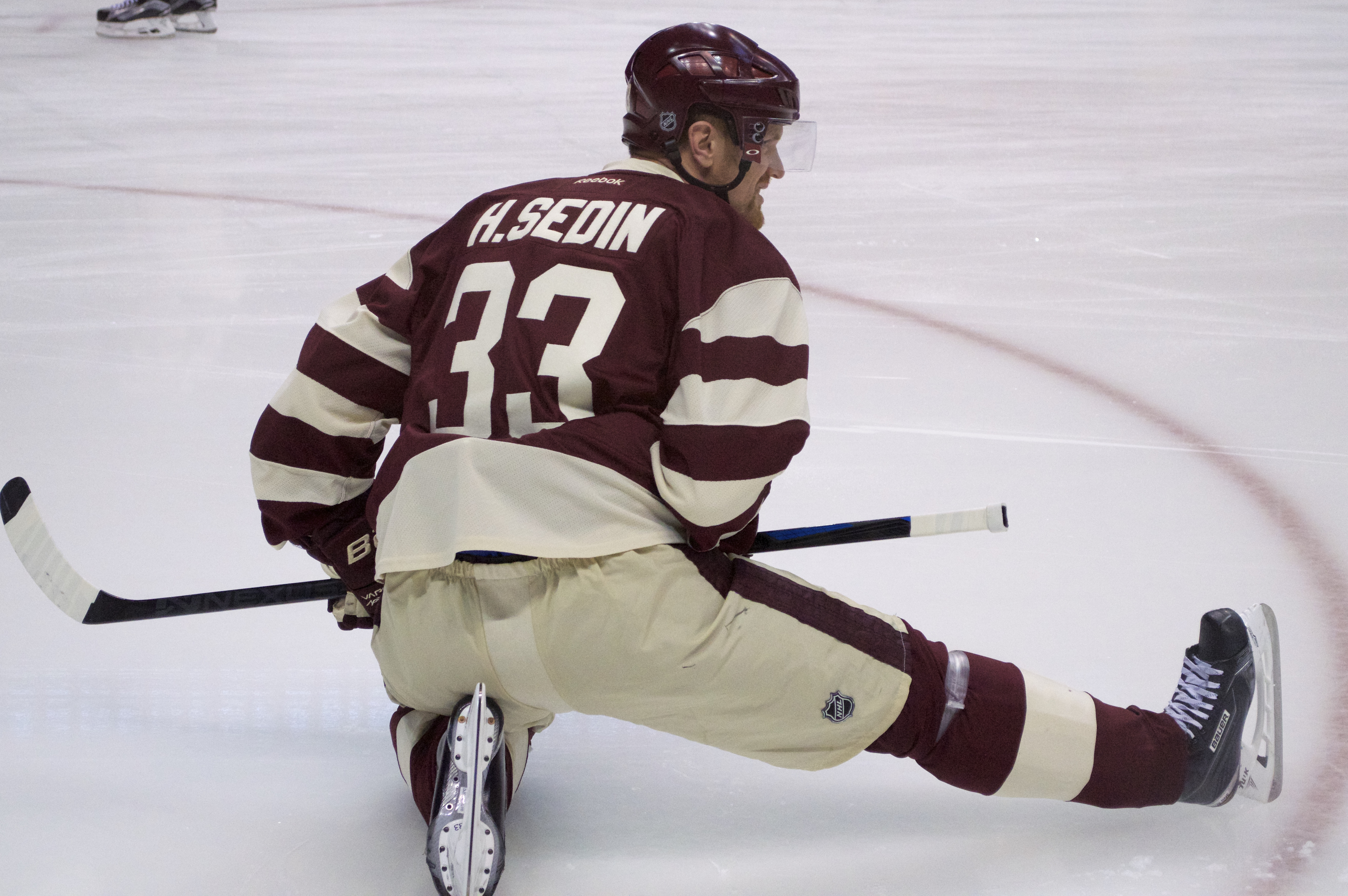 Vancouver Canucks captain Henrik Sedin during a pre-game warm up on March 26, 2015 at Rogers Arena. The team wore Vancouver Millionaires jerseys commemorating the Millionaires' 1915 Stanley Cup victory.